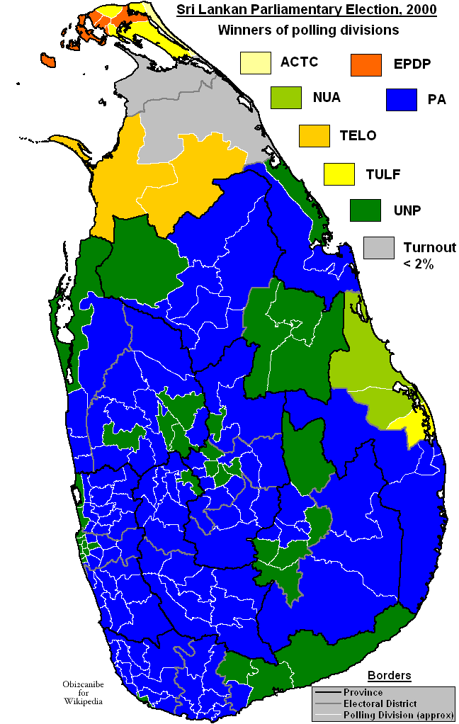 Map showing winners of polling divisions in the Sri Lankan parliamentary election of 2000.